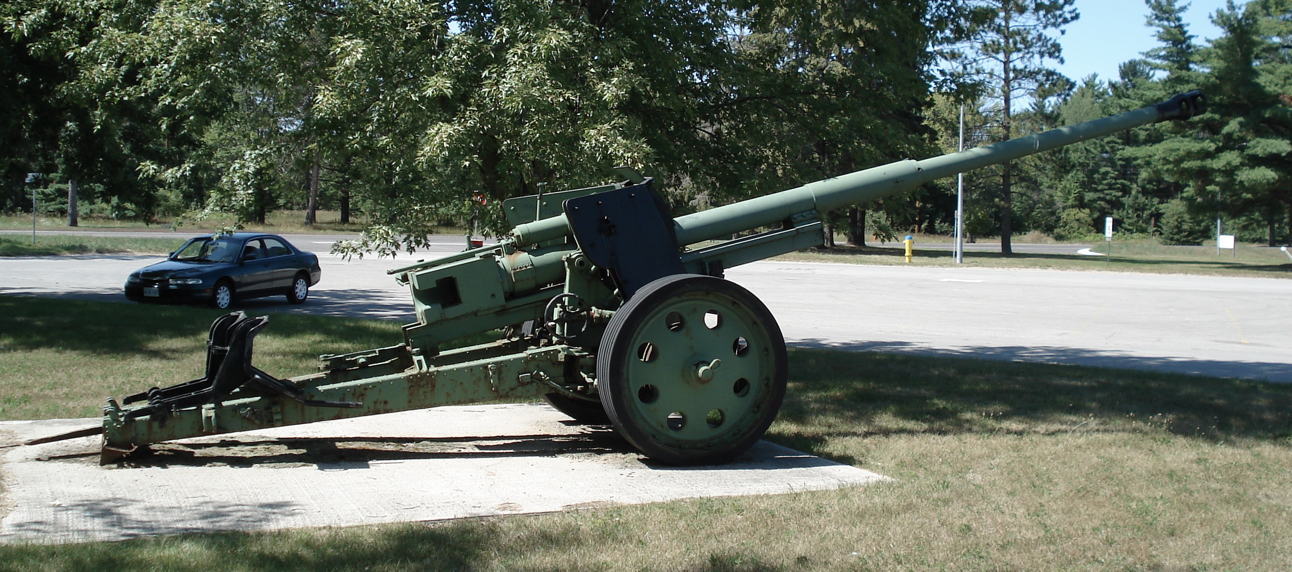 German PaK 43/41 88 mm anti-tank gun, displayed on the grounds of CFB Borden (Base Borden Military Museum). Photo taken on August 12, 2006. Source: Photo by me, User:Balcer.